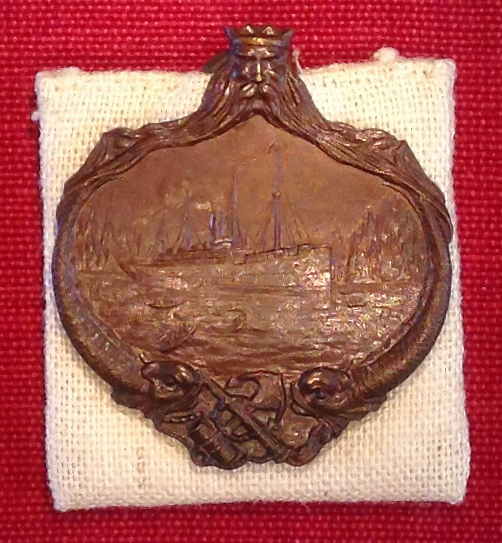 One of 320 Carpathia medals, struck in gold, silver and bronze and awarded to the officers and crews of the RMS Carpathia in recognition of their rescue of survivors of the sinking of the RMS Titanic. The medals were presented to the crew in New York, six weeks after the Titanic sinking. On display at Melbourne Museum, Australia.